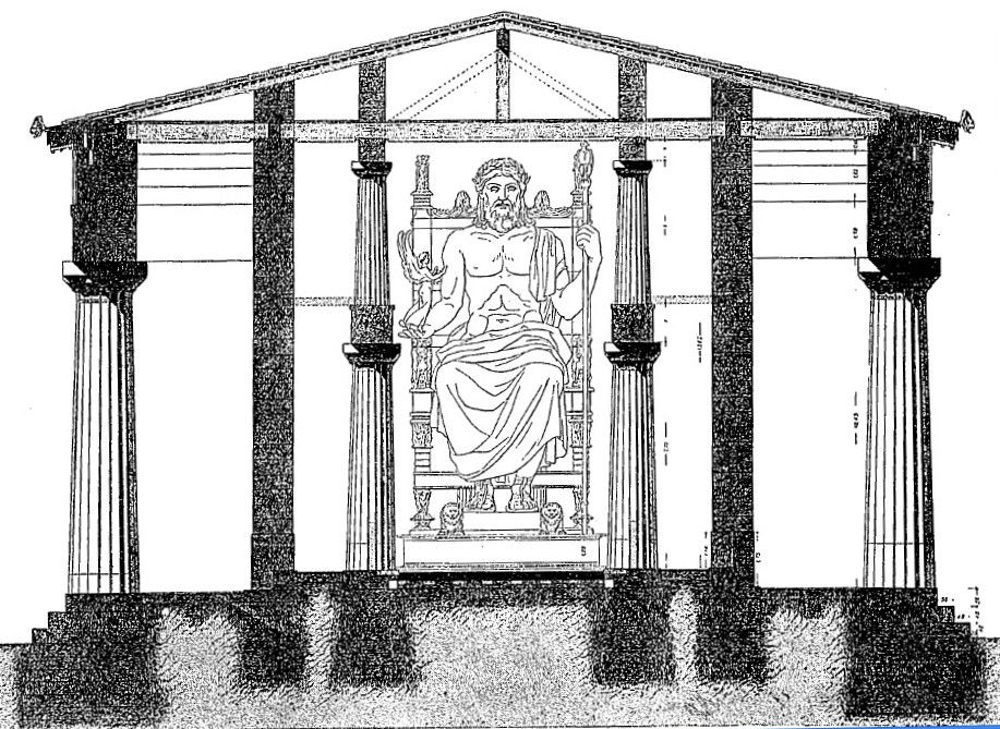 Olympia und Delphi [microform] (1904) Author: Luckenbach, H. (Hermann), 1856-1949 Subject: Ramos, Anatole, 1924-; Delphoi (Greece) Publisher: München : R. Oldenbourg Language: German Book contributor: University of Chicago Collection: microfilm